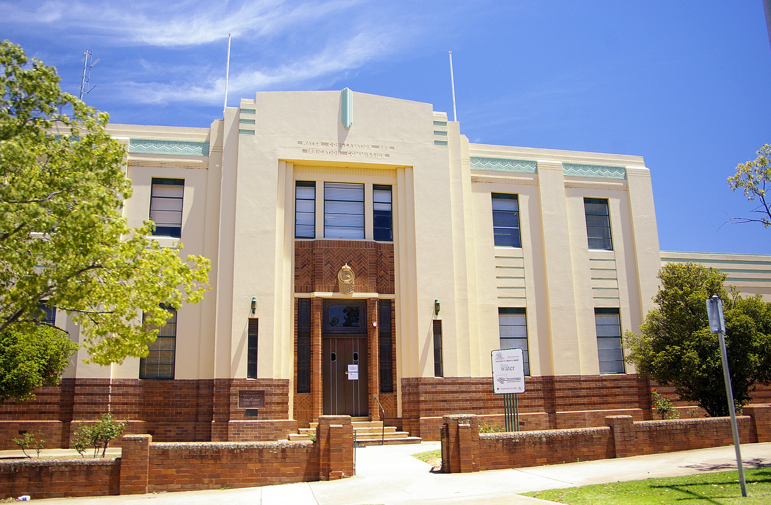 Water Conservation and Irrigation Commission building which is home to State Water, Department of Lands and Murrumbidgee Catchment Management Authority.